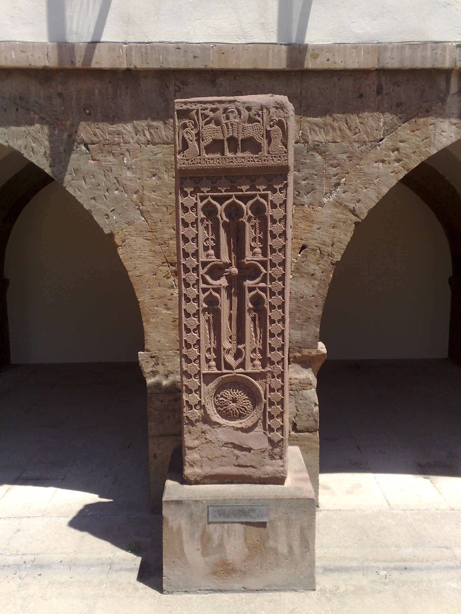 Khatchkar from Jugha (Julfa, modern Azerbaijan). XVI century.